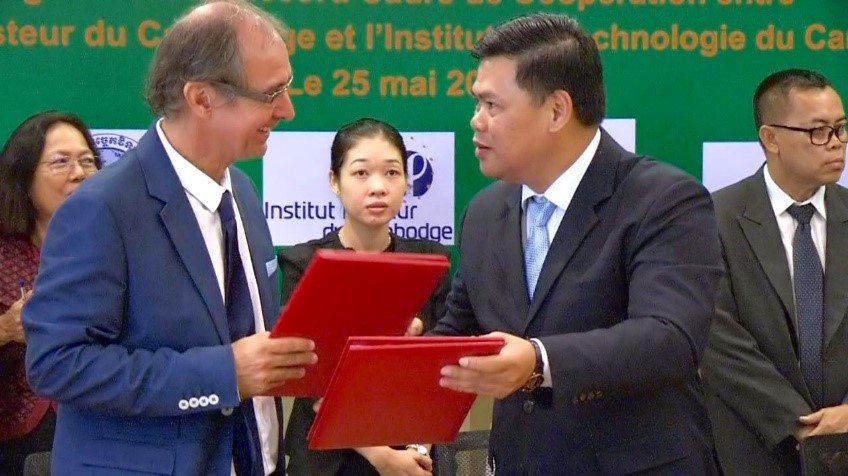 Exchange agreement of joining resarch